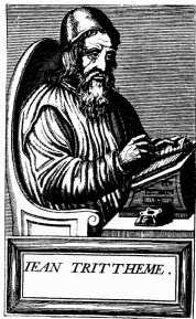 Johannes Trithemius